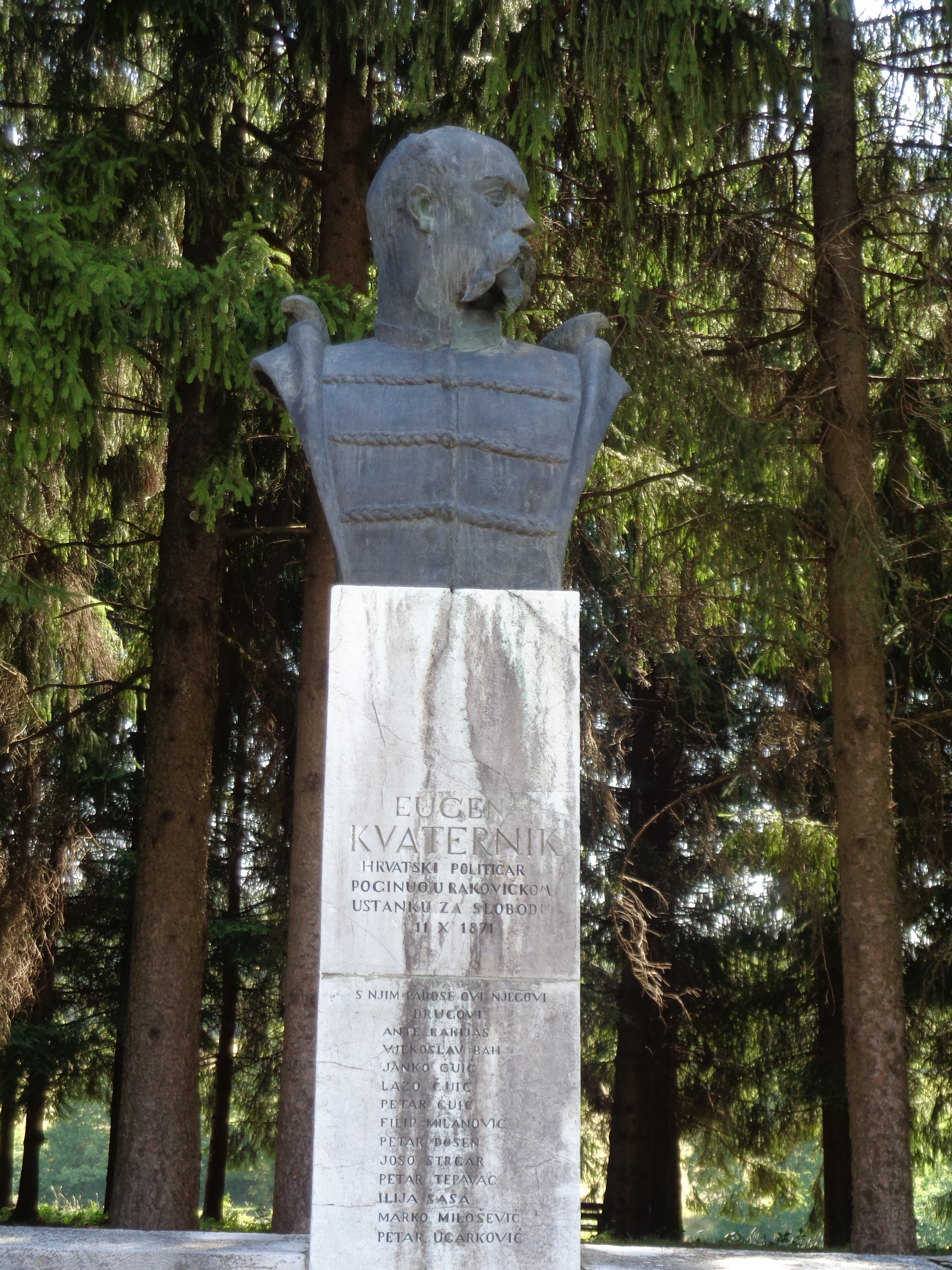 Eugen Kvaternik (1825-1871), Croatian politician, jurist, writer and revolutionary - bust in Rakovica, Croatia